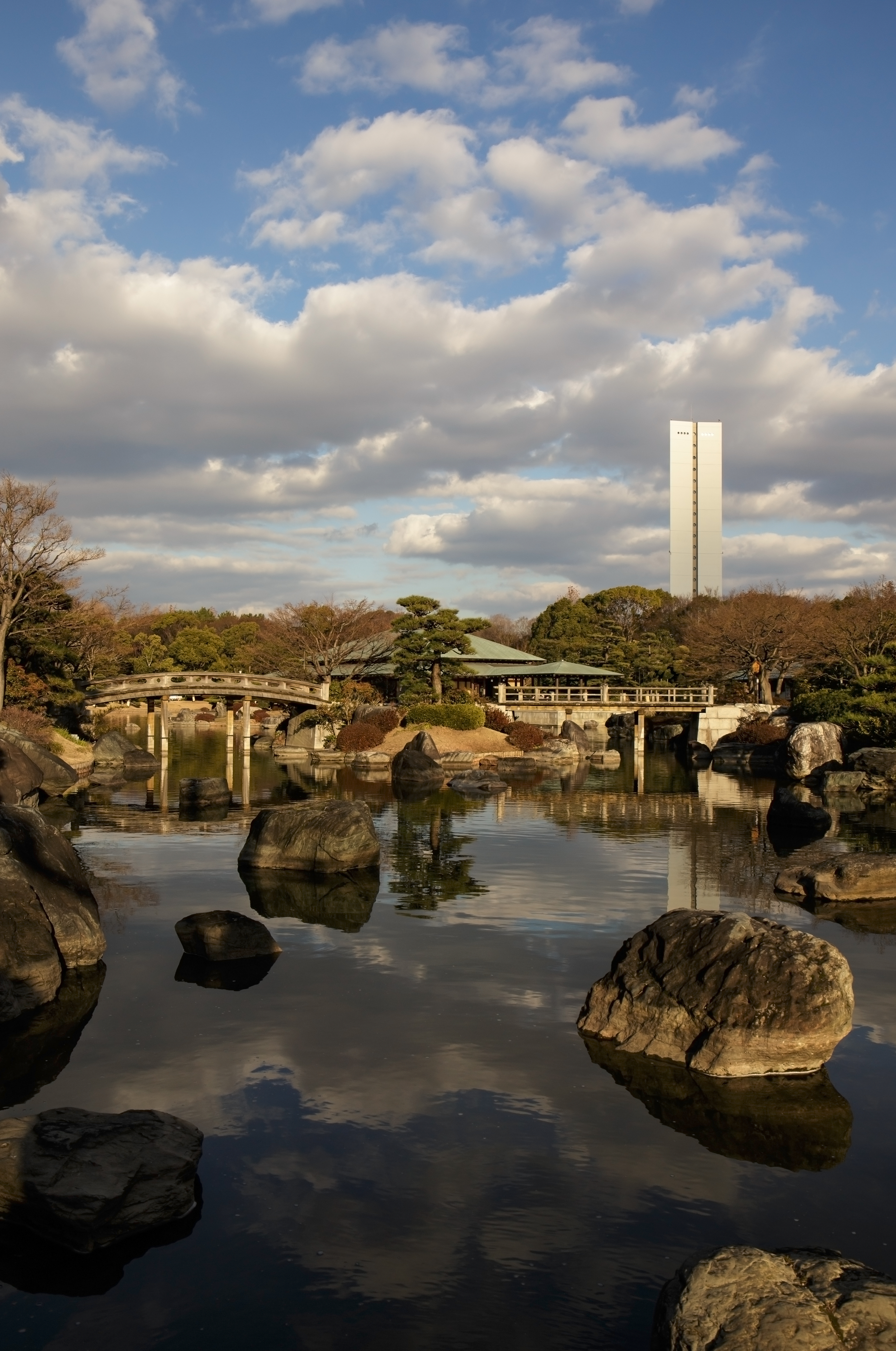 Japanese garden pond at Daisen Park in Sakai.